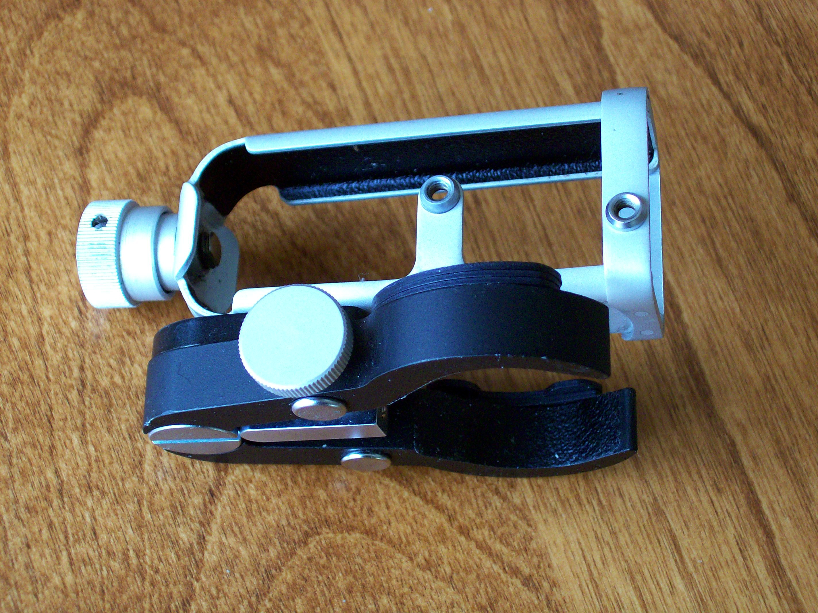 Minox binocular attachment 密诺斯望远镜夹